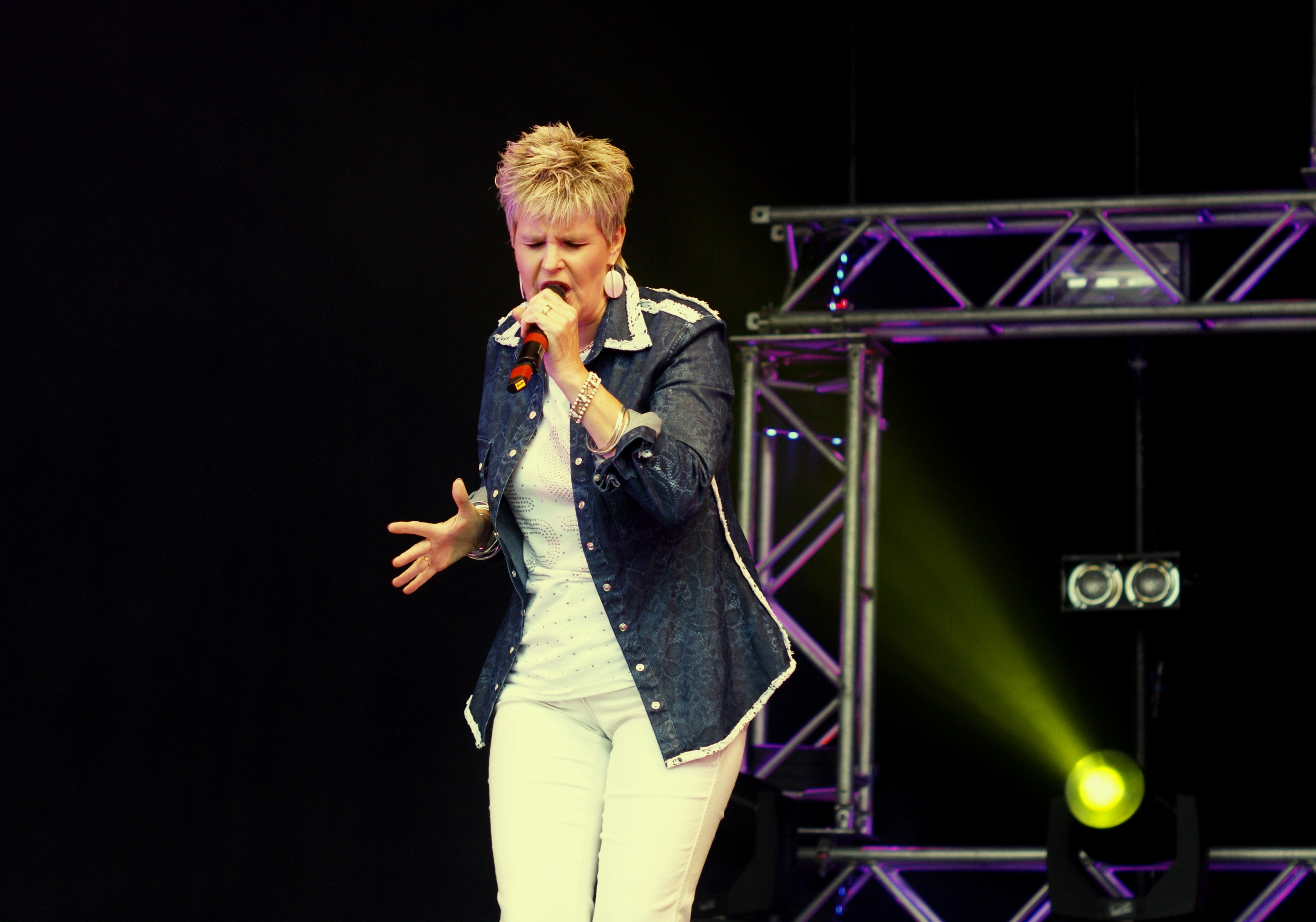 Hazell Dean performing at Manchester Pride on Monday the 29th of August 2011